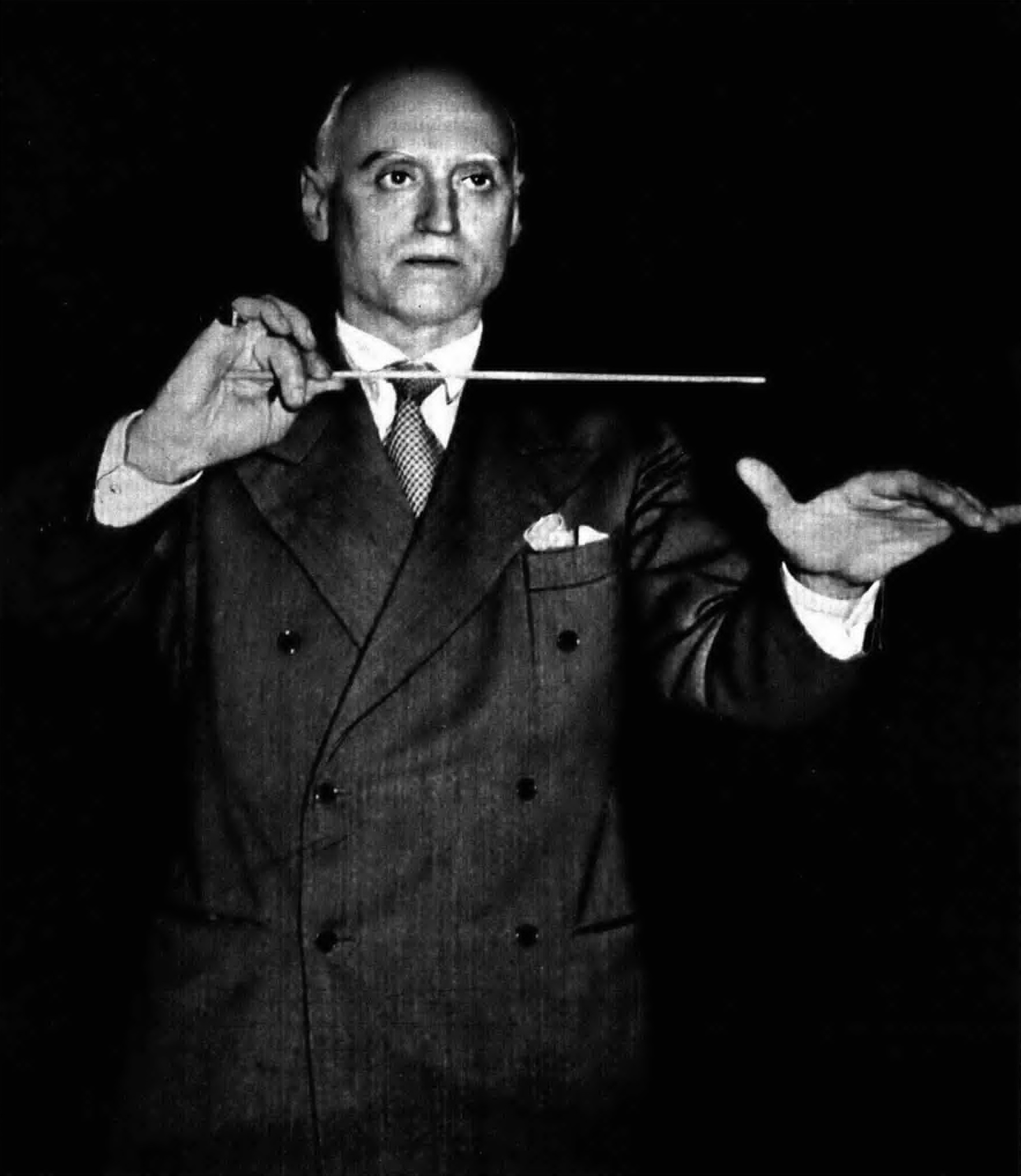 Italian conductor Victor de Sabata